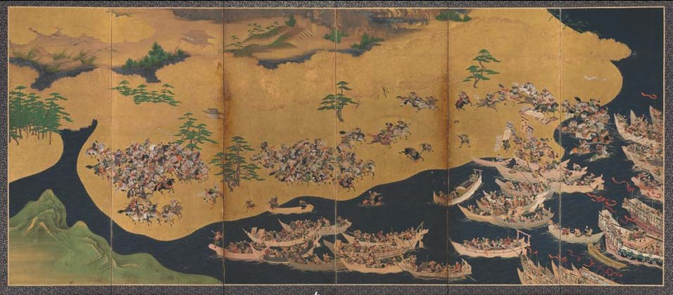 Battles of Yashima and Ichinotani from The Tale of Heike, late 16th century